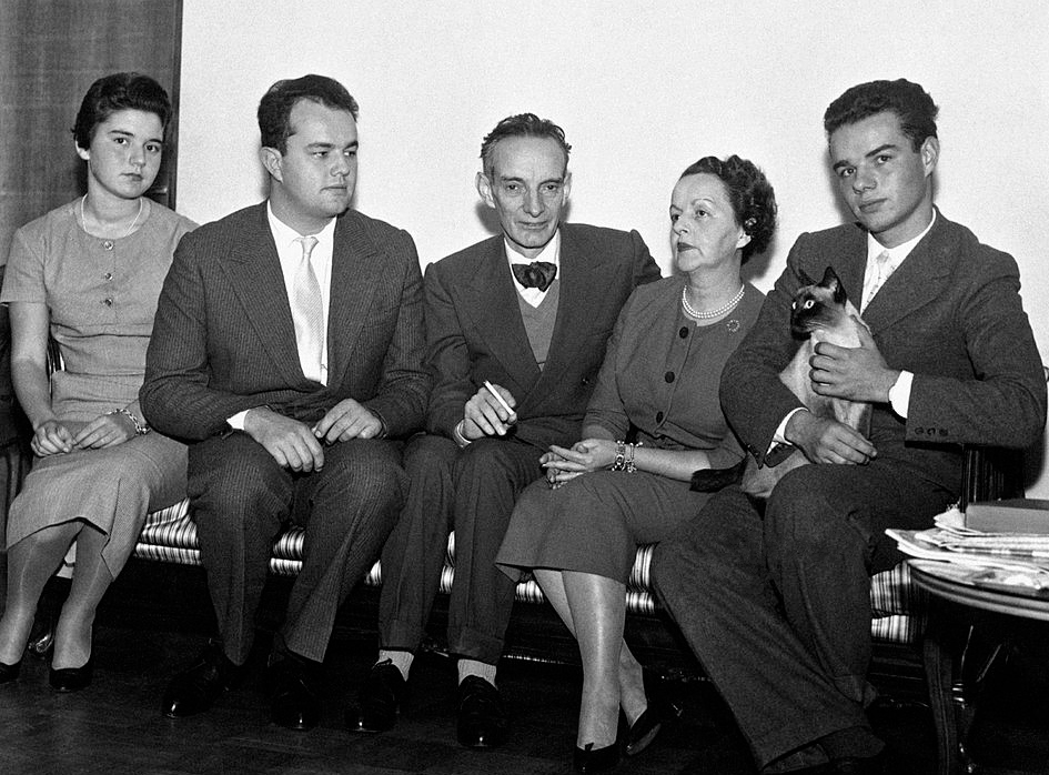 Swiss-born Italian biochemist and Nobel Prize in Physiology or Medicine Daniel Bovet sitting in his house in Rome with his wife Filomena Nitti, his nephew Antonella, his sons Gianpaolo and Daniele. Rome, October 1957